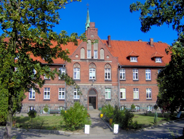 One of the buildings of the hospital in Puck, it used to be the property of nuns, neogothic, Puck, Puck district, Pomorskie voivodeship, Poland